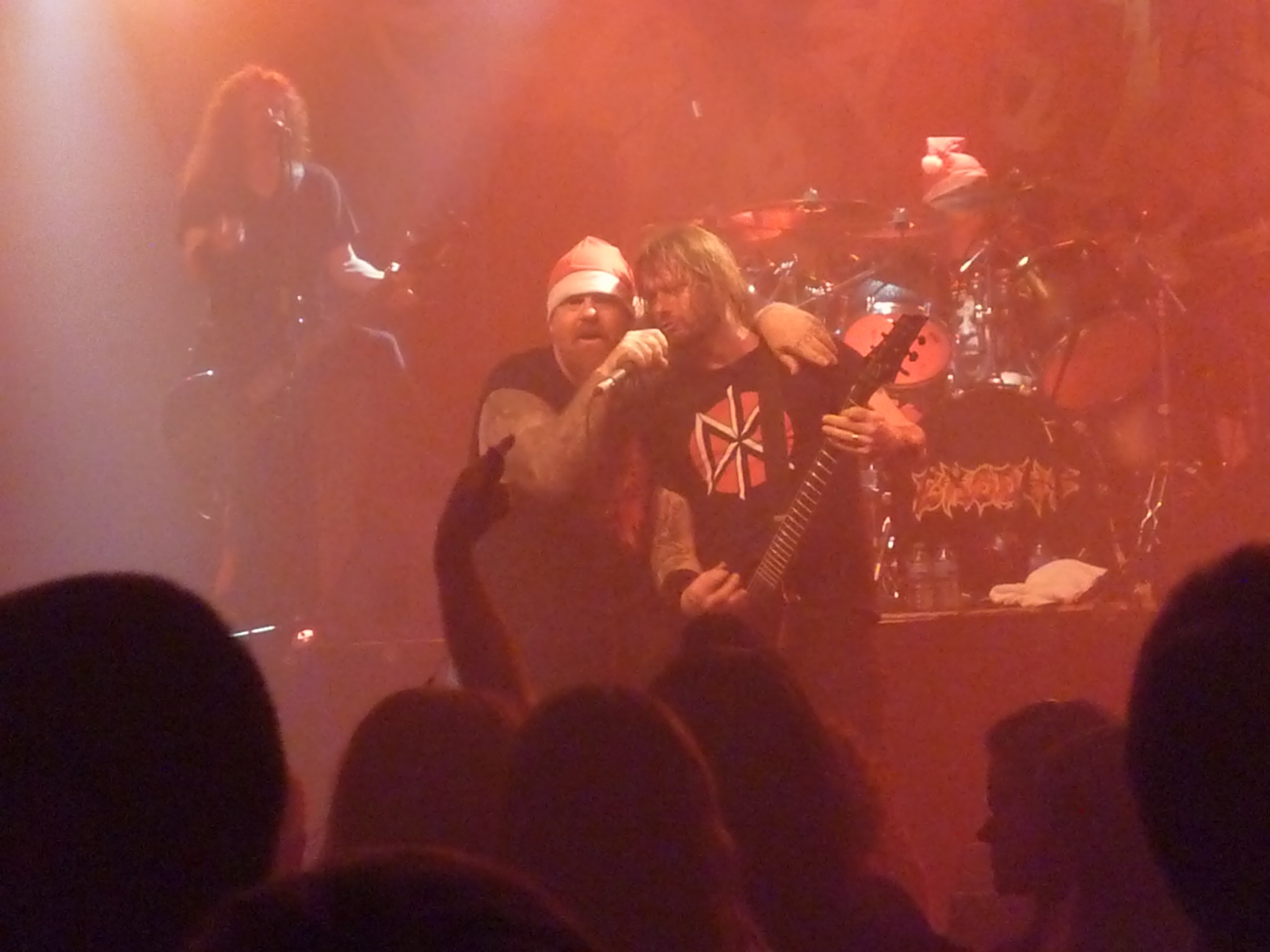 Exodus at the Thrashfest 2011 (Garage Saarbrücken)